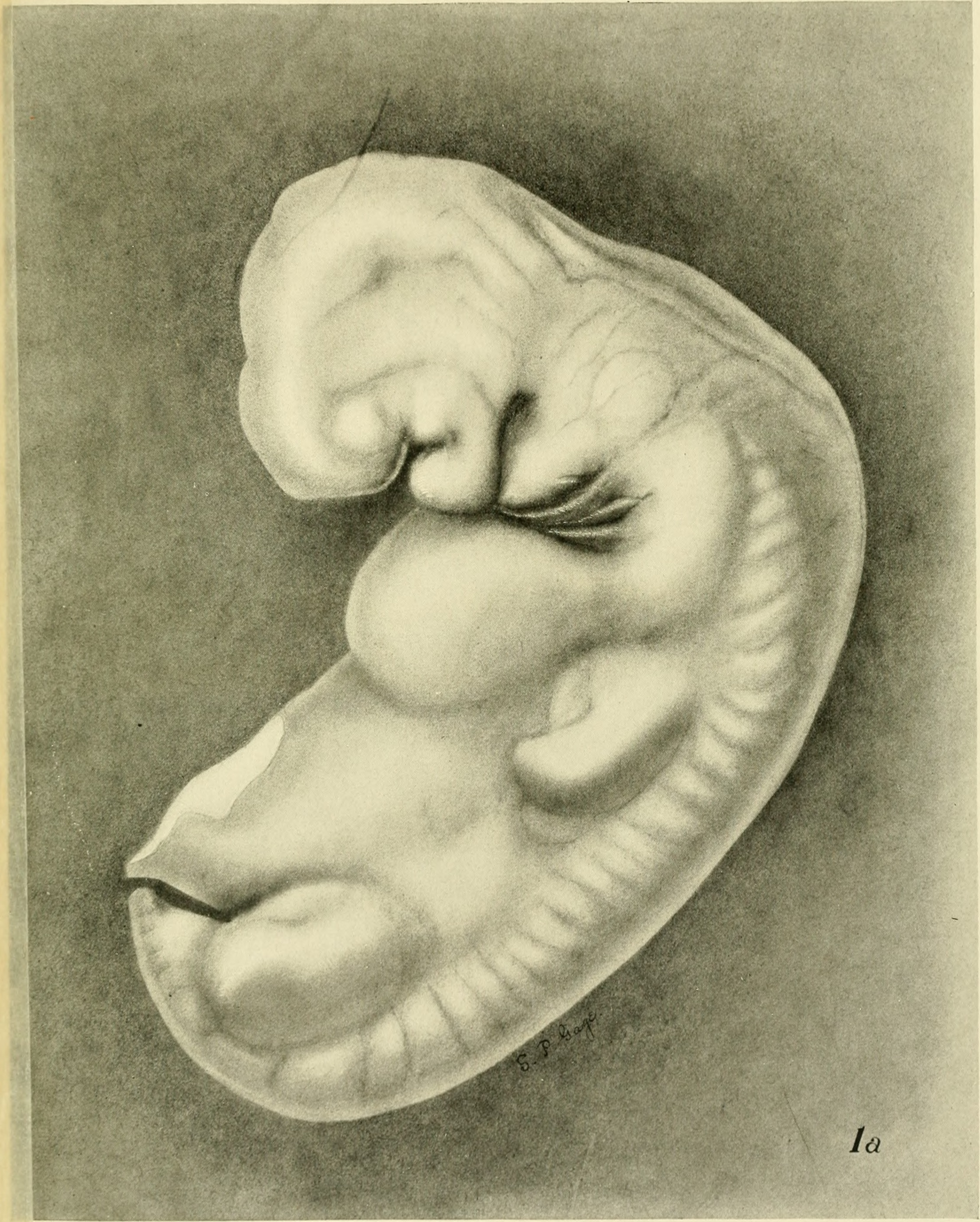 Title: The American journal of anatomy Year: 1905 (1900s) Authors: Wistar Institute of Anatomy and Biology; Association of American Anatomists Subjects: Anatomy; Anatomy Publisher: Baltimore, MD : (s. n. ) Text Appearing Before Image: \ THREE WEEKS' HUMAN EMBRYO SUSANNA PHELPS GAGE PLATE I Text Appearing After Image: lERICAN JOURNAL OF ANATOMY~VOL. IV